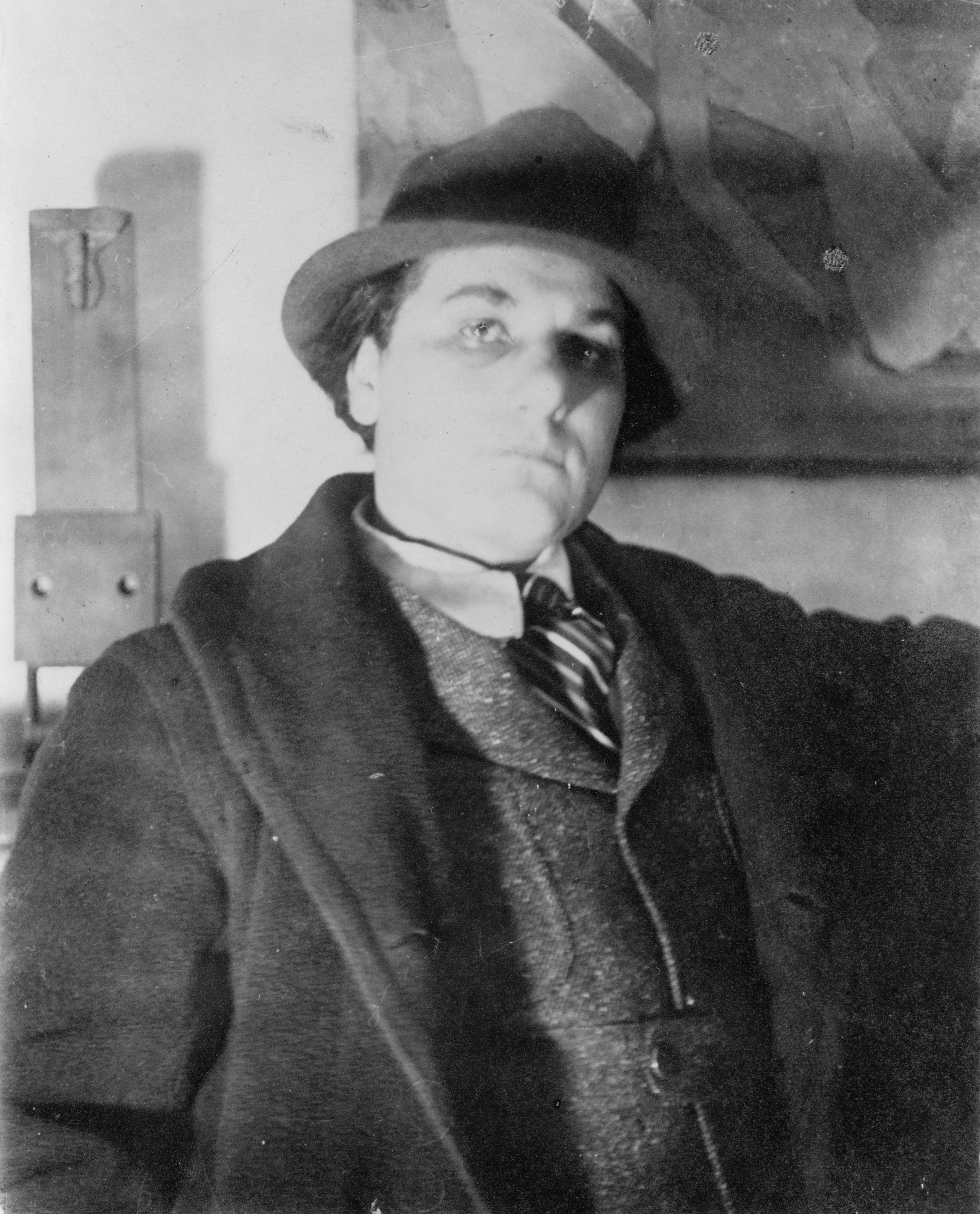 Lithuanian-American artist William Zorach, photographed by Man Ray.